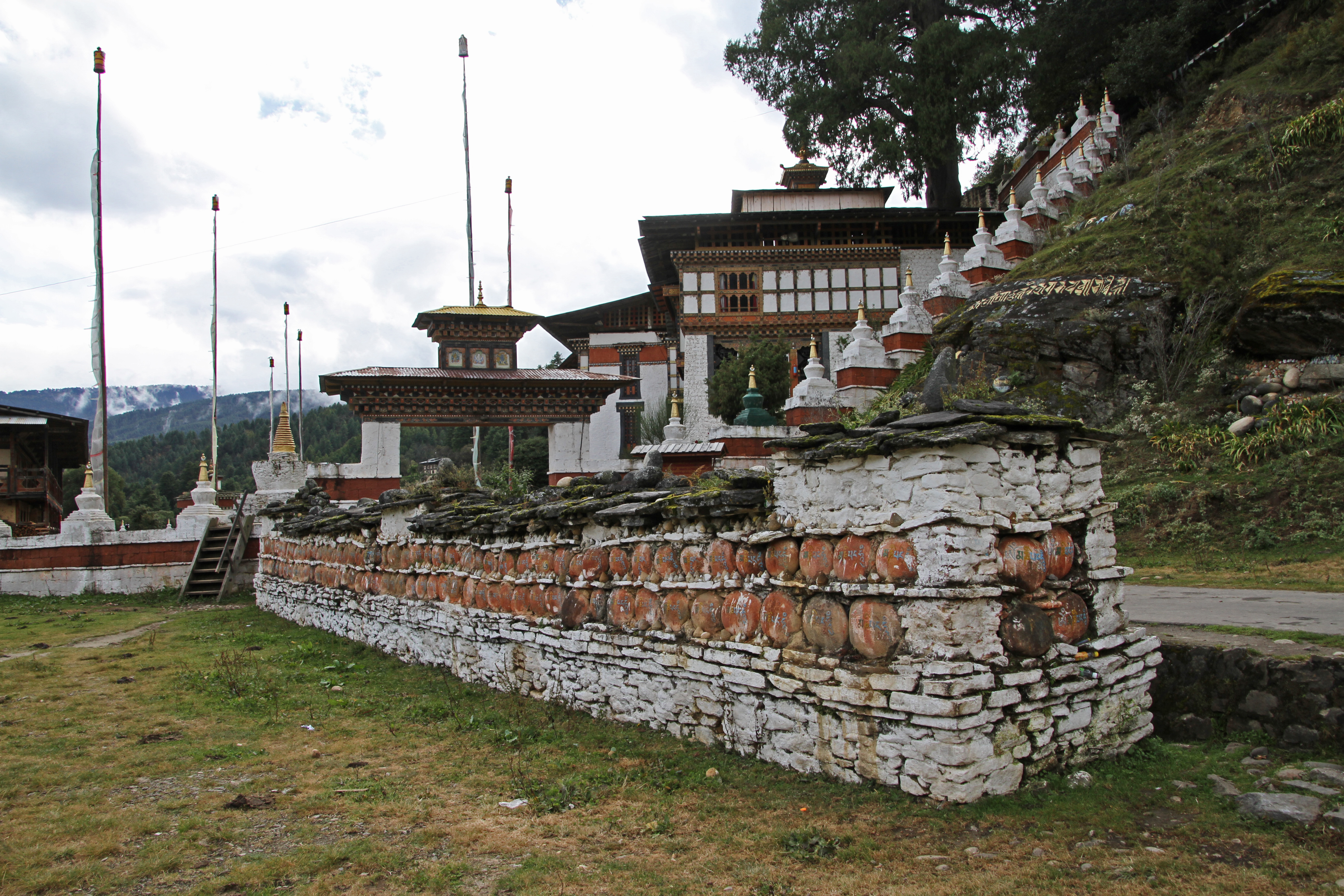 Kurjey Lhakhang in Bumthang district in Bhutan